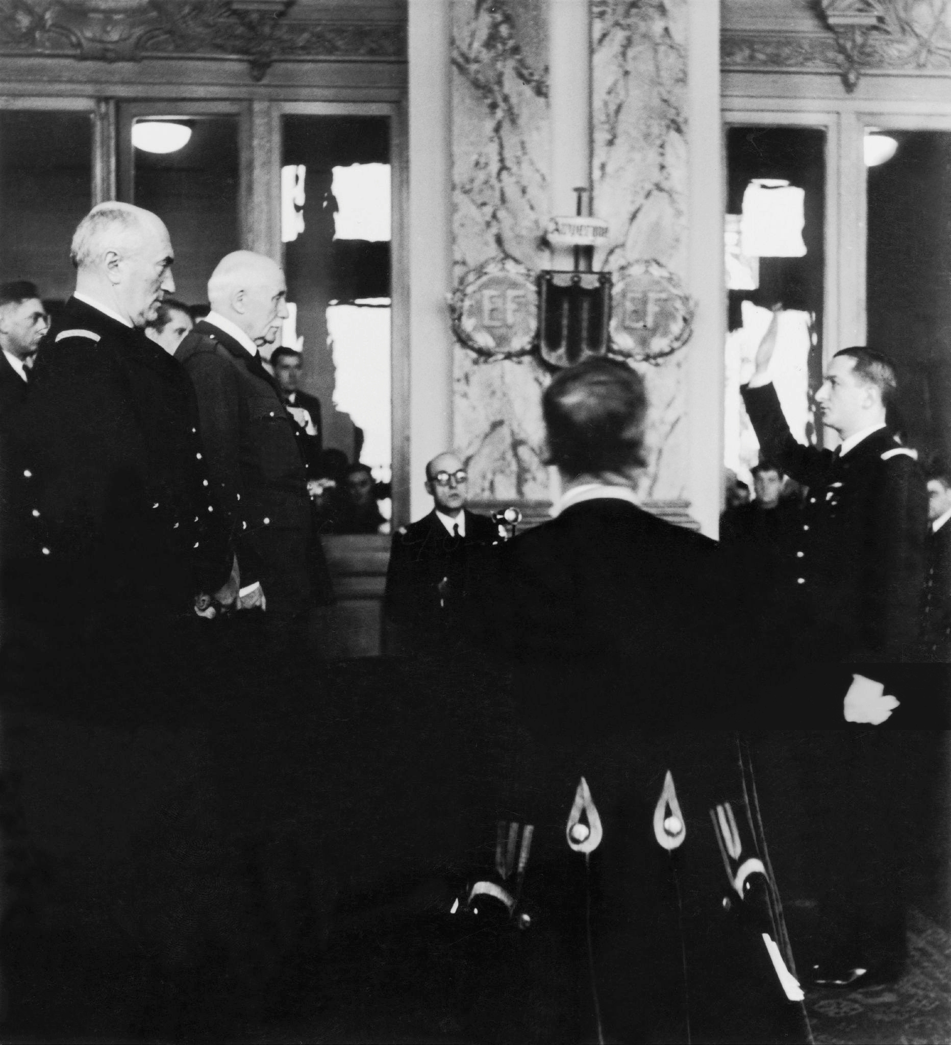 Rene Bousquet, Prefect Of Marne And Prefect Of The Champagne-Ardenne Region Taking An Oath Of Loyalty To Marshal Petain In Presence Of Admiral Darlan In Vichy On February 19, 1942.